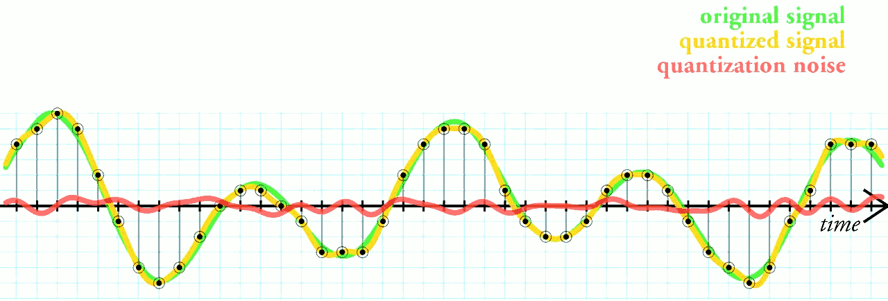 The simplest way to quantize a signal is to choose the digital amplitude value closest to the original analog amplitude. Unfortunately, the exact noise that results from this simple quantization scheme depends somewhat on the input signal. It may be inconsistent, cause distortion, or be undesirable in some other way.